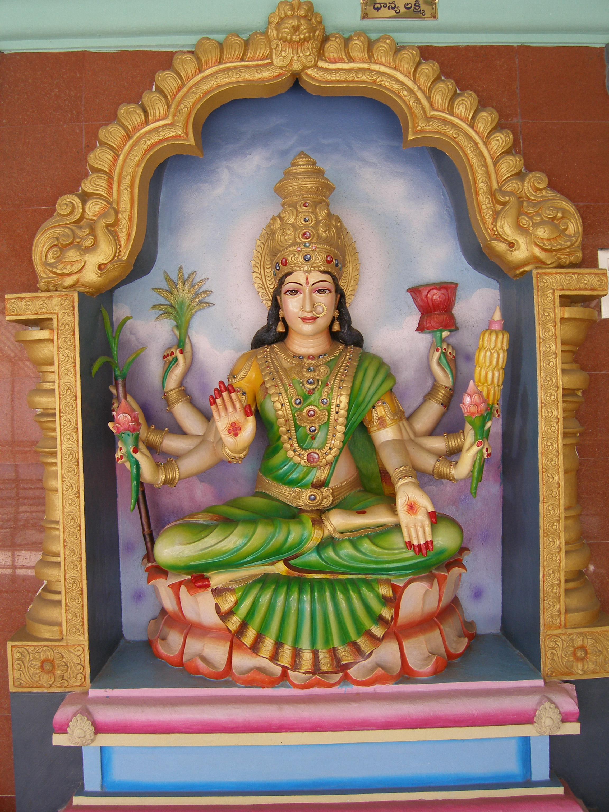 Dhanya Laxmi at Narayana Tirumala.